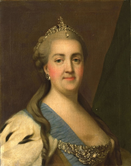 Portrait of Catherine II, Empress of Russia. Bust facing right. On her head a diamond tiara.